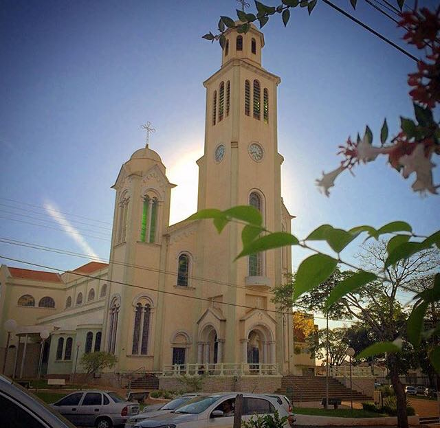 St. Anthony Parish